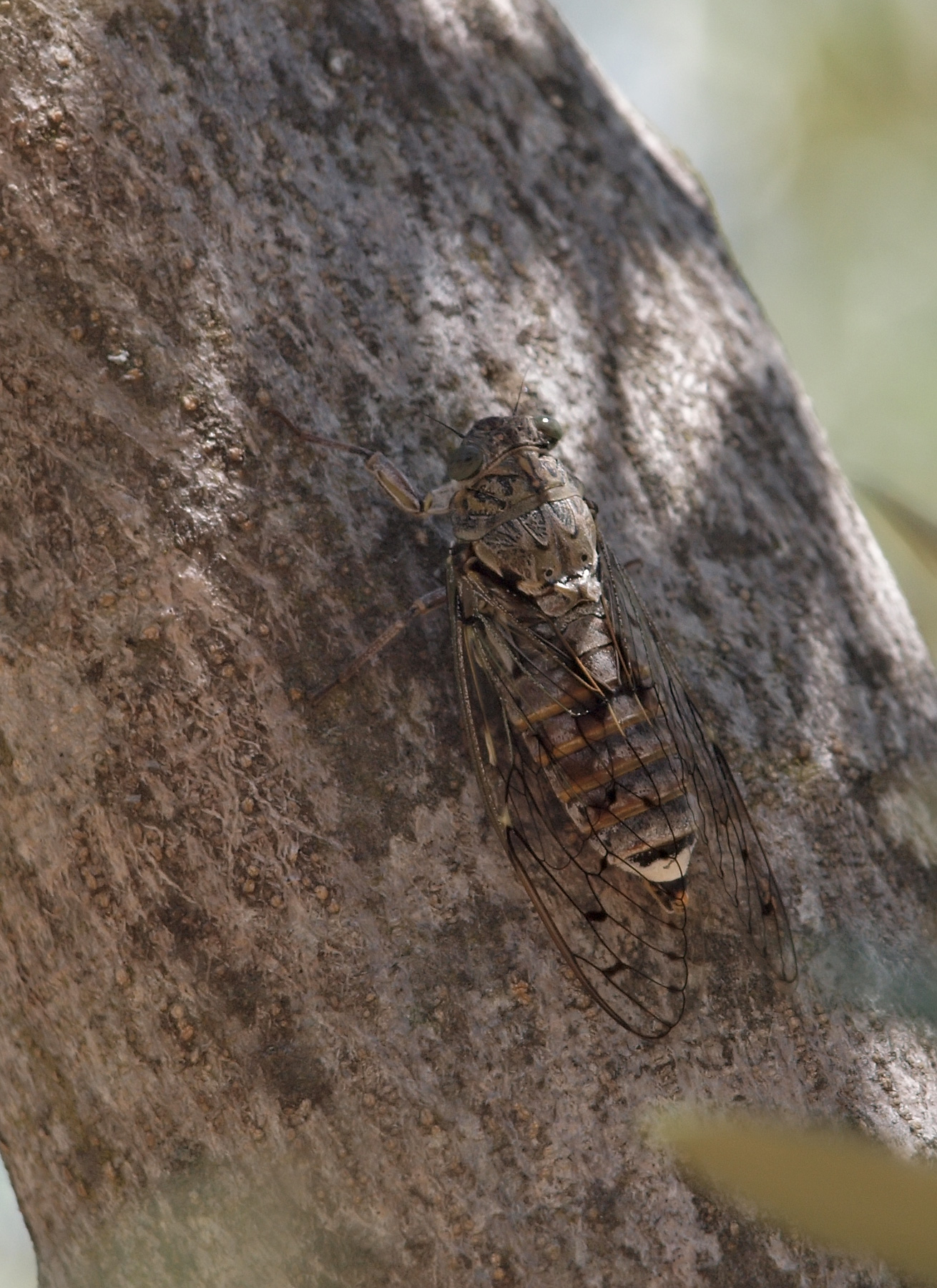 Cicada barbara cf. subsp. lusitanica on an olive tree (Olea europaea). Losar de la Vera (Cáceres, España).